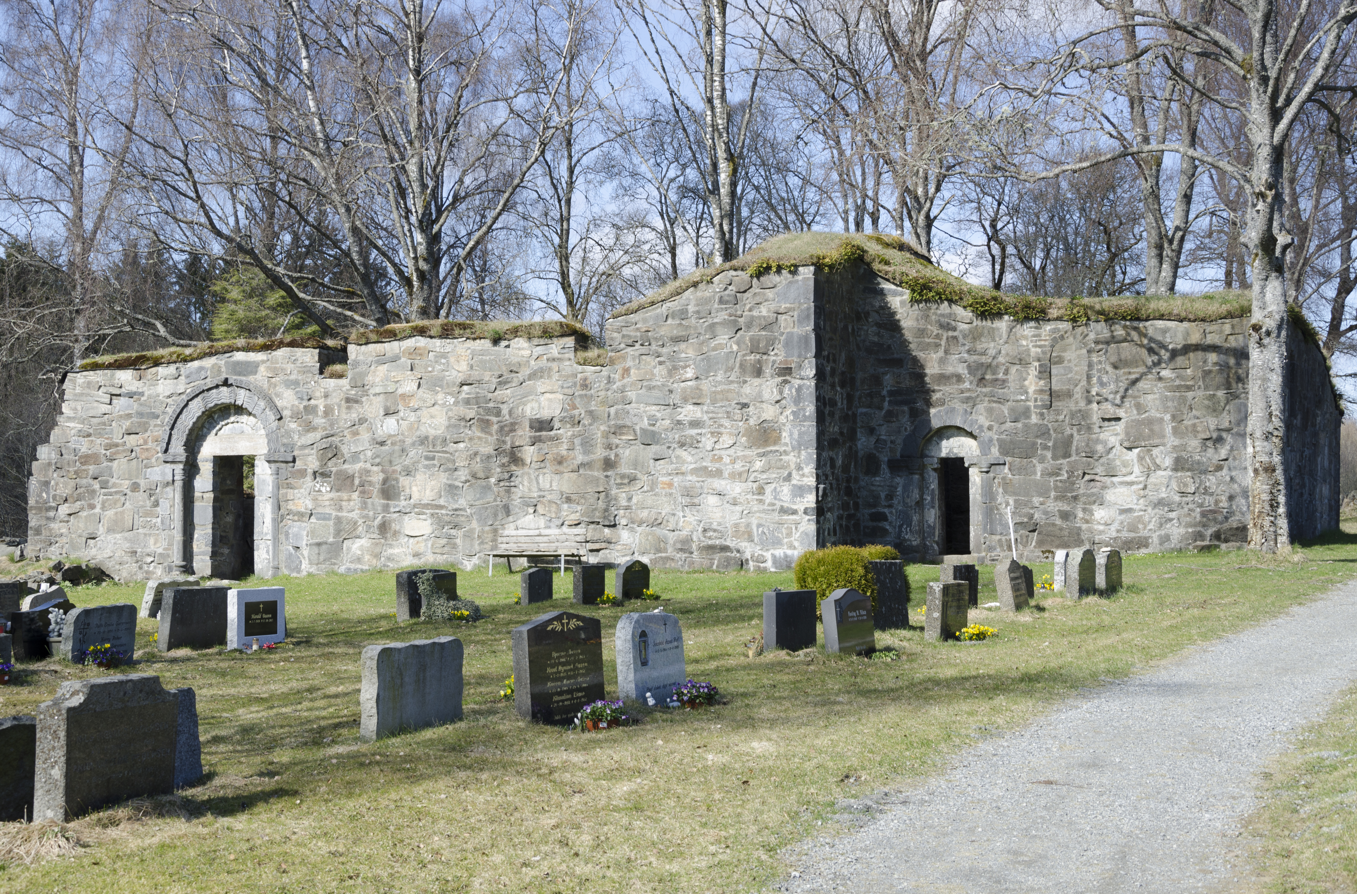 Ruin of Skeidi church, a mediaeval church dedicated to St. Olav, inaugurated ca. 1150. The church was built Romanesque-Norman architectural style and became the centre of Olav worship in the region. In 1846 the old church was partly demolished so its stones could be used in the foundations of the new church as well as for walls surrounding the churchyard.